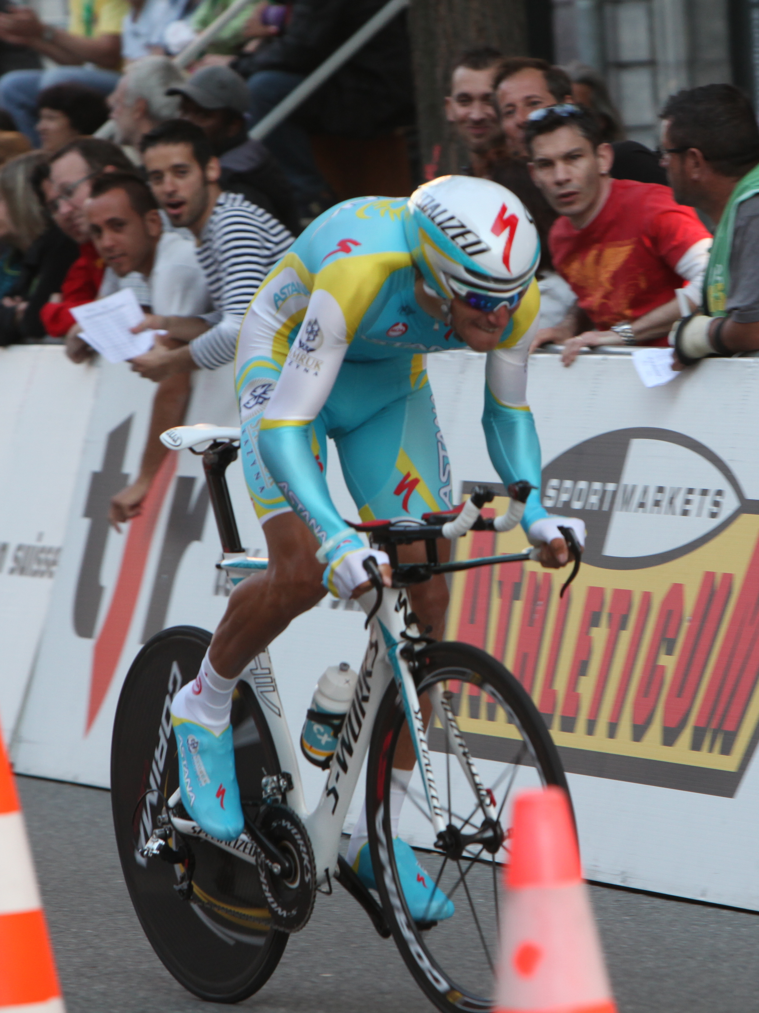 Roman Kreuziger at the prologue of the Tour de Romandie 2011